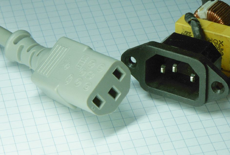 Female (black) and male (gray) connector